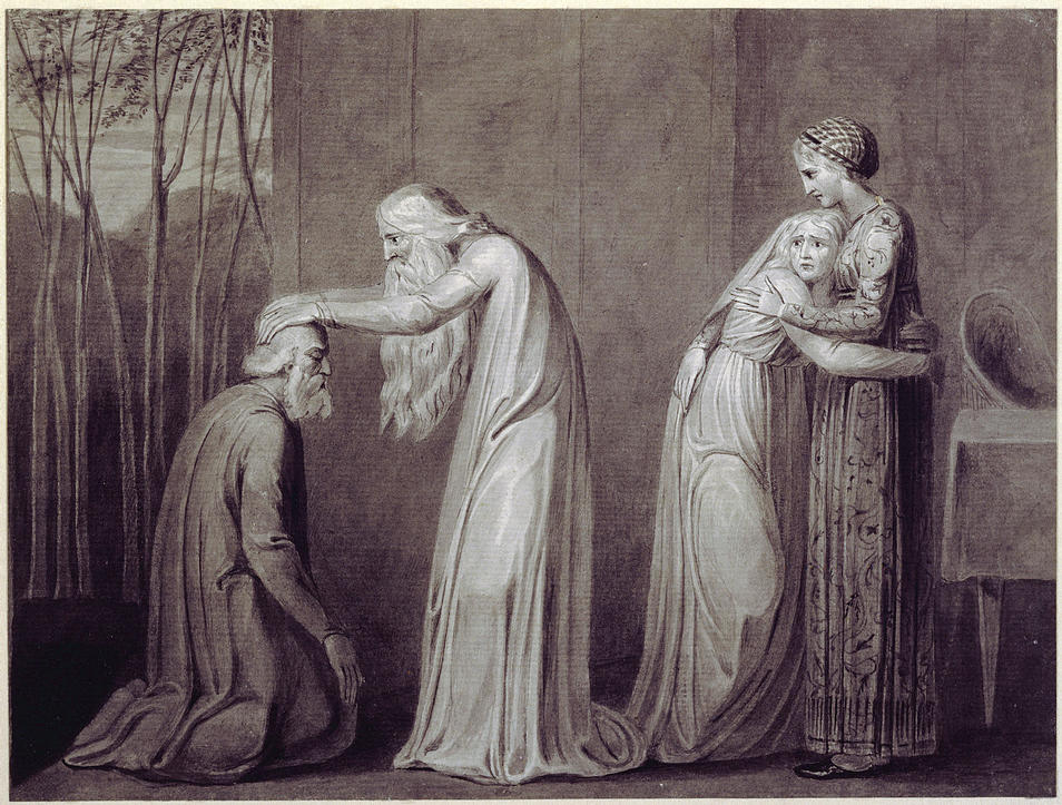 Har blessing Tiriel (an illustration for William Blake's poem Tiriel (1789)